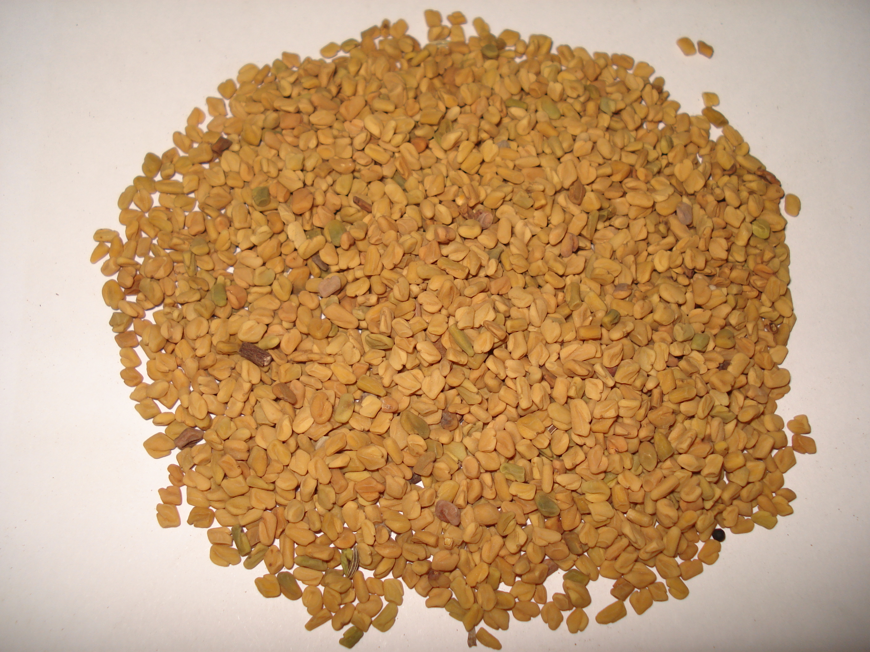 Methi dana